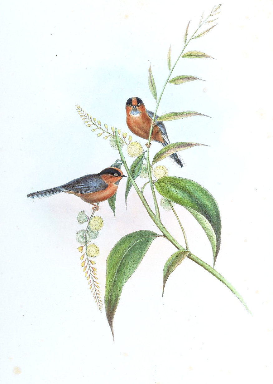 Aegithalos iouschistos